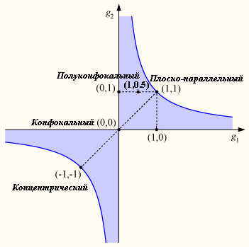 Stability diagram